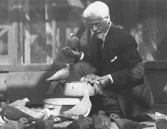 Charles Otis Whitman